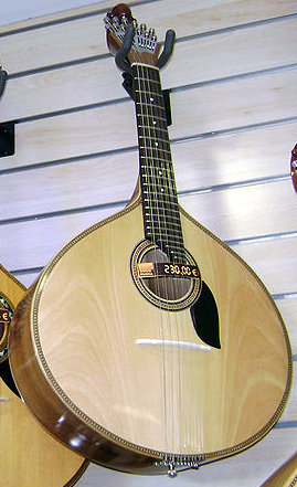 Lisbon Portuguese guitar.